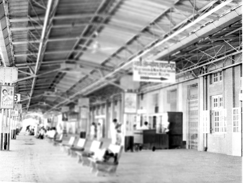 DPIO(Shri Mirchandani)/January,1956,A41bA view of the Station Offices and Platform with roof cover at Mathura Station which was remodelled in 1955. Photo Number:-50256